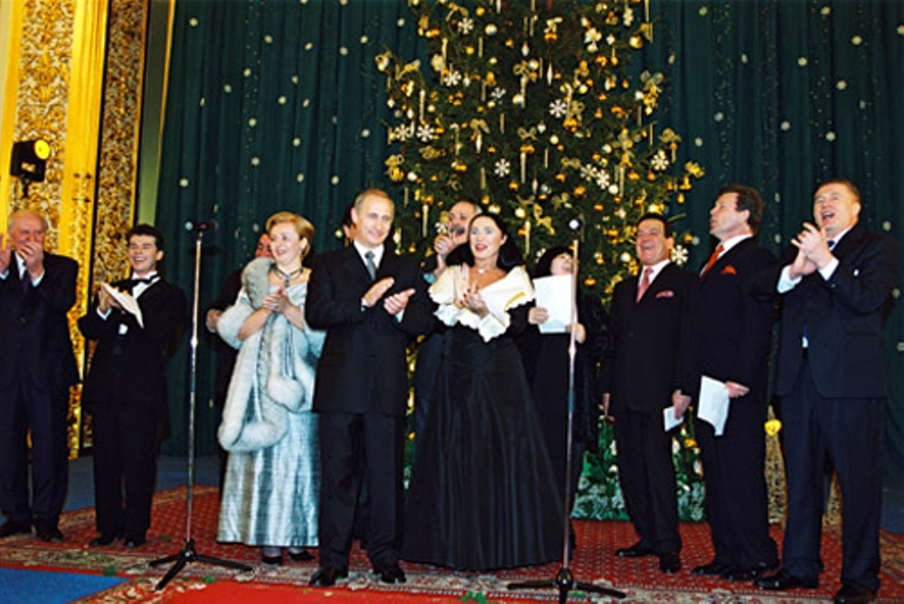 GRAND KREMLIN PALACE, MOSCOW. A reception dedicated to the New Year's celebration.